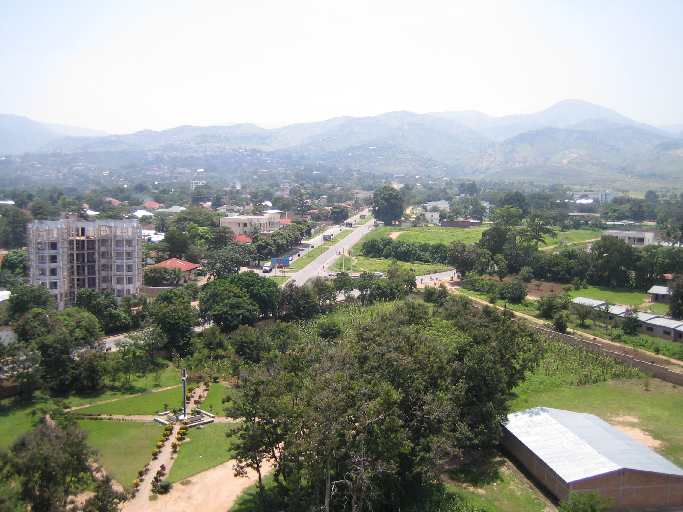 View of Bujumbura, Burundi, looking east from the cathedral spire.